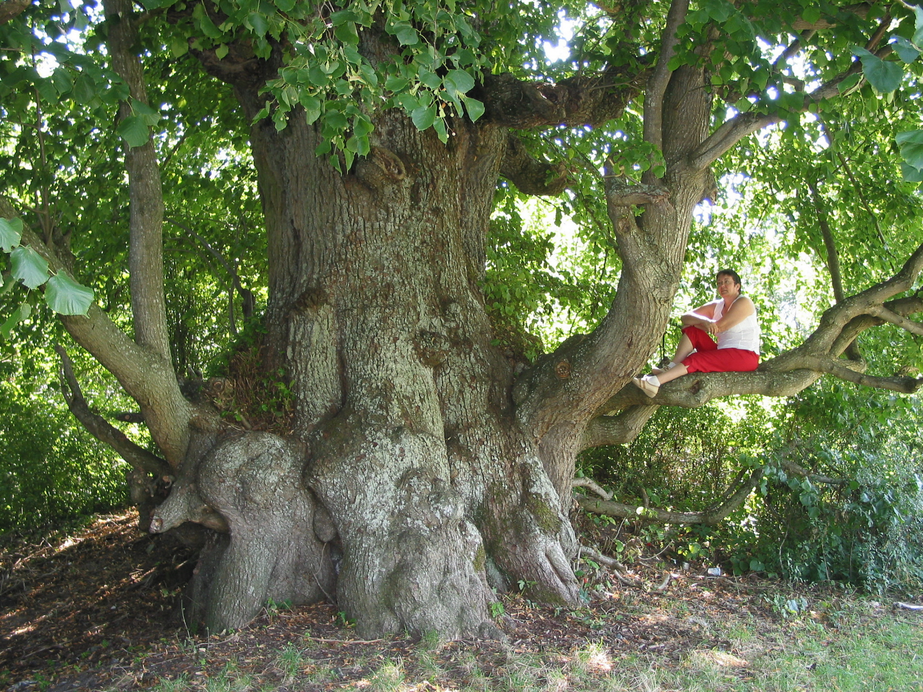 Large-leaved Lime or Large Linden